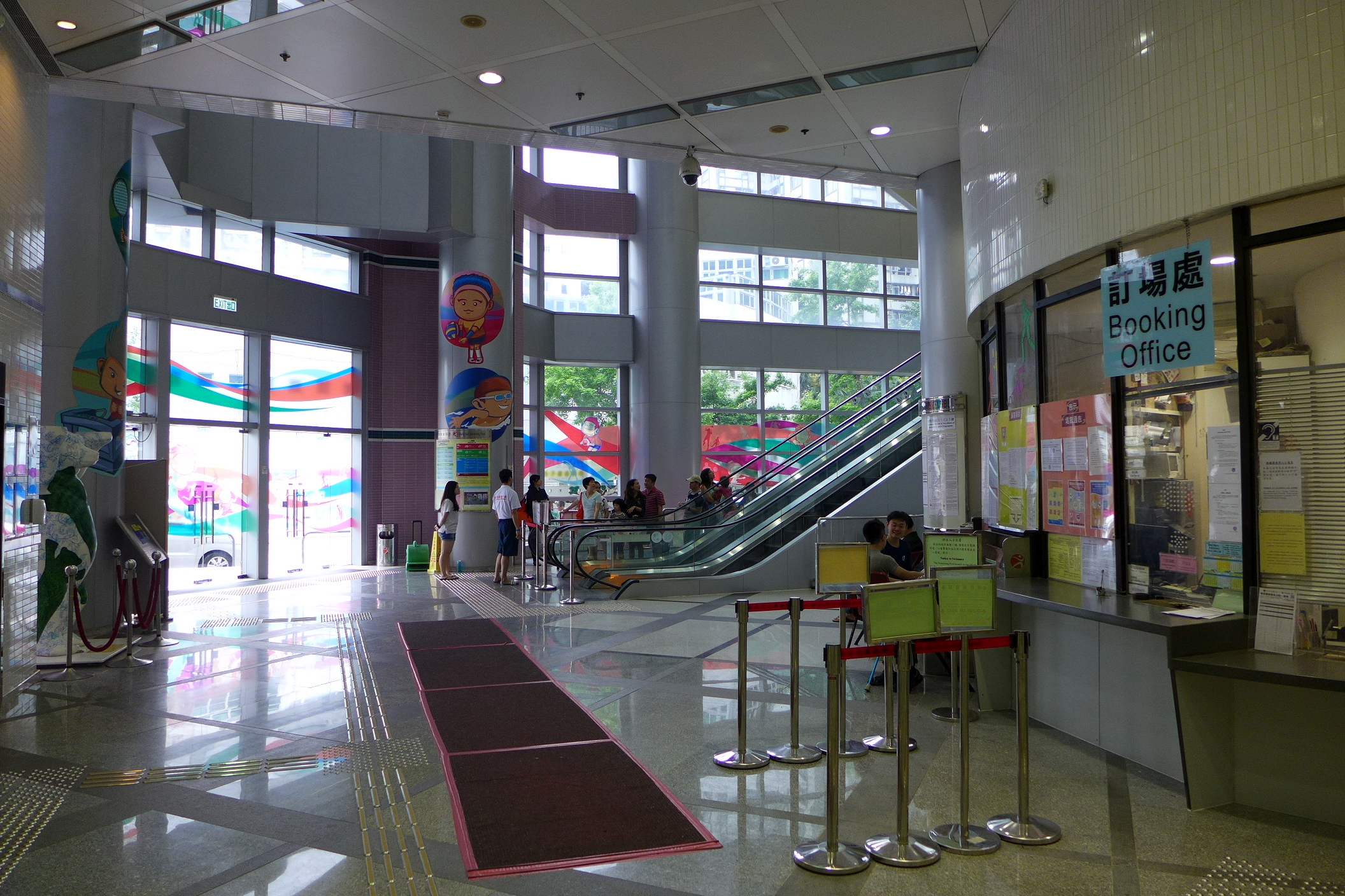 Island East Sports Centre GF Lobby